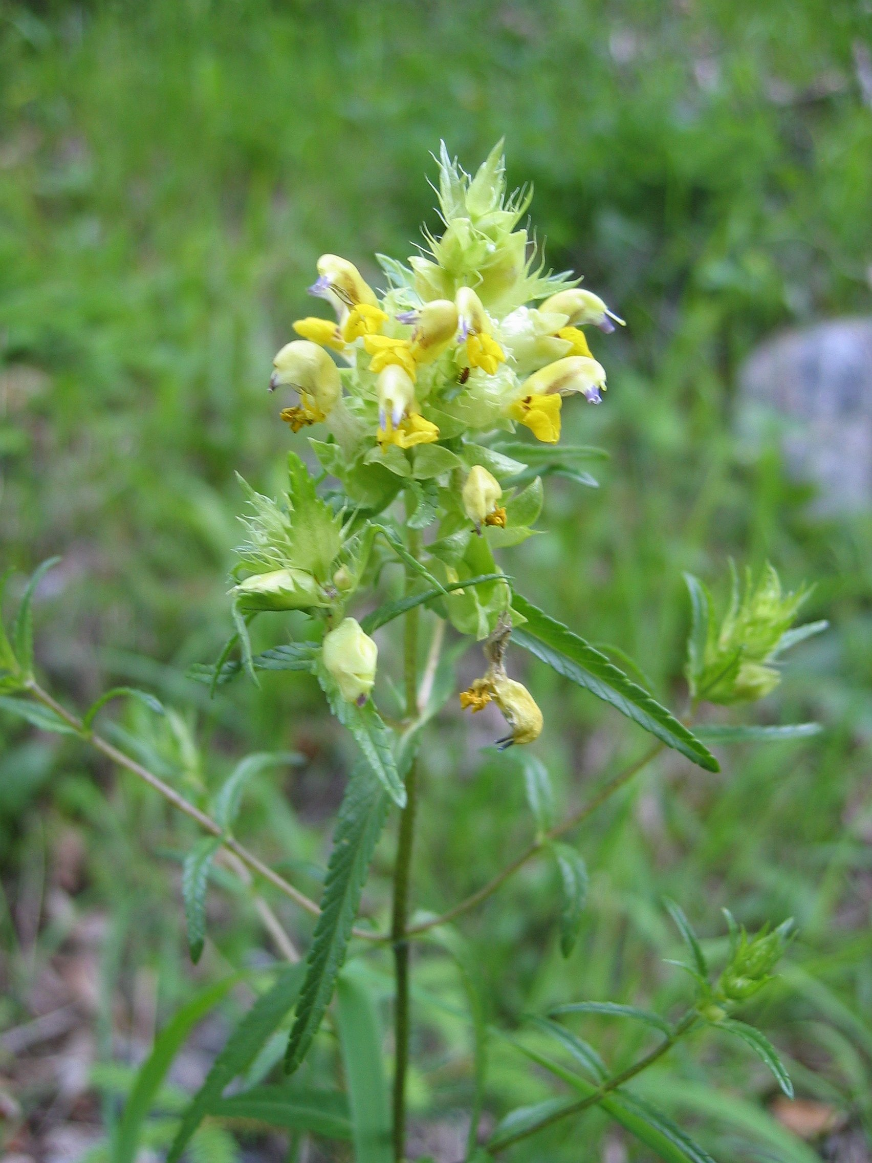 Rhinanthus glacialis, Hinterstoder ~1.000, Upper Austria, Austria